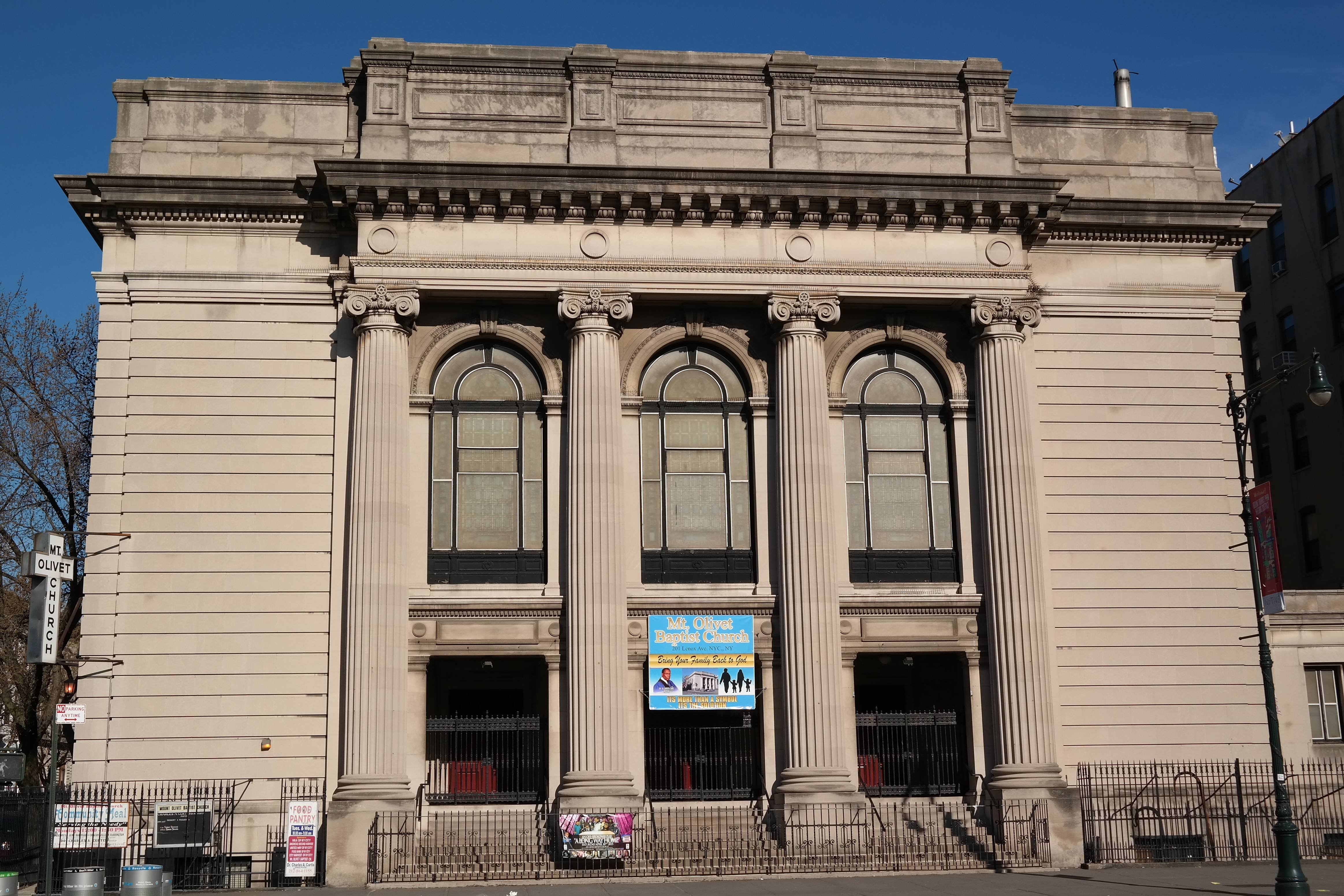 This building was constructed in 1907 as a synagogue called Temple Israel of Harlem. It has been occupied by Mount Olivet Baptist Church since the mid 1920s. It is located at Lenox Avenue and West 120th Street in Harlem, New York City.